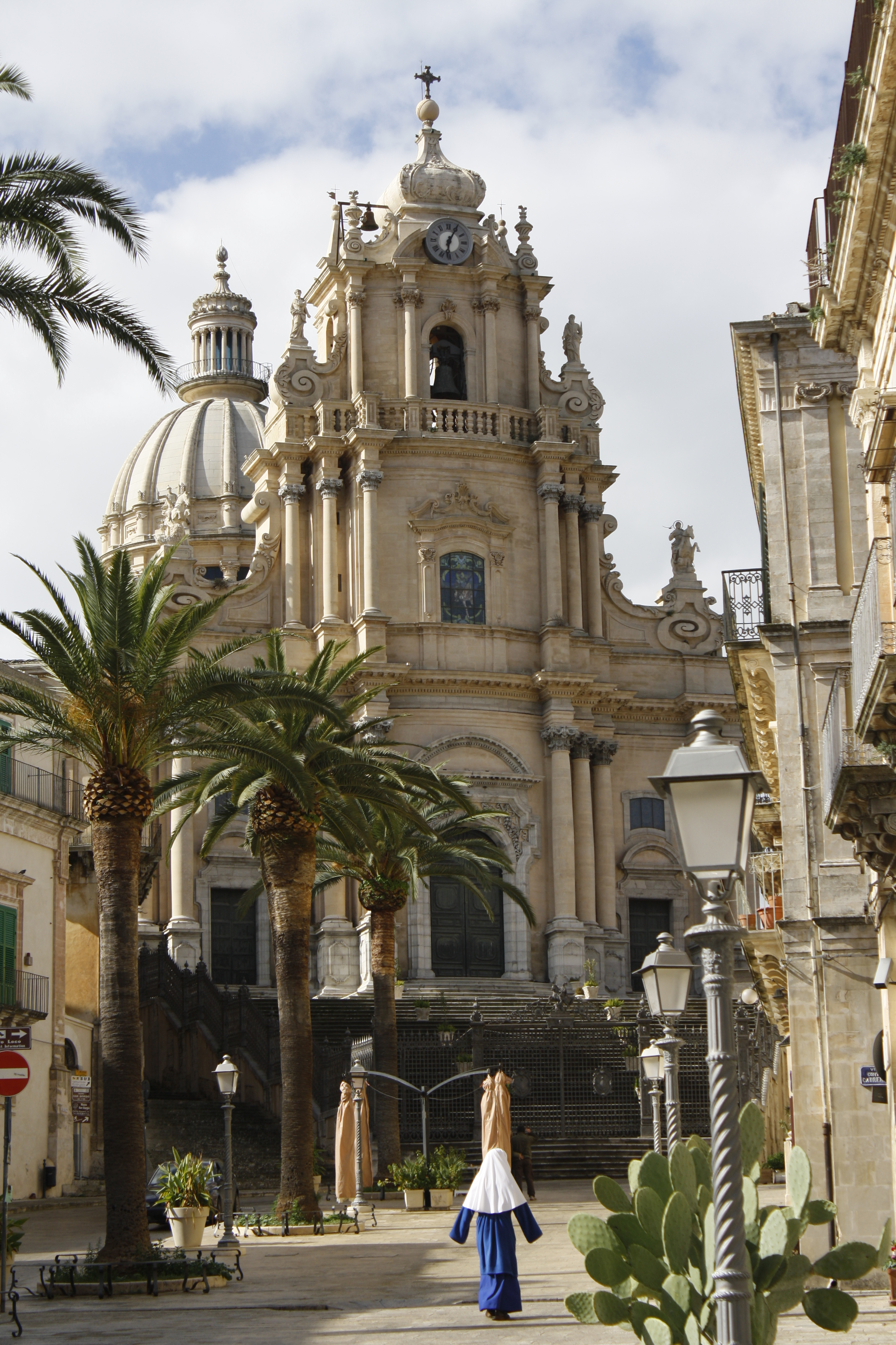 Cathedral of San Giorgio in Ragusa Ibla.